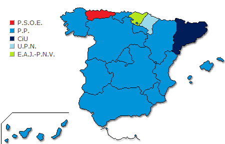 Most voted parties by regions in the Spanish local elections 2011.